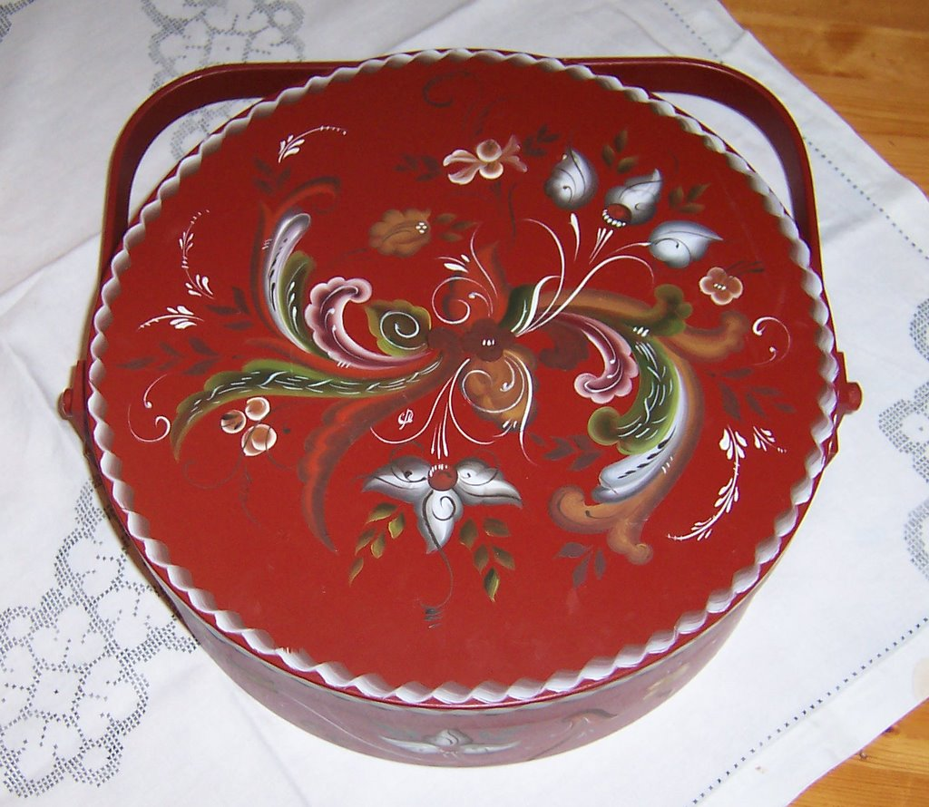 An example of Norwegian rosemaling on a tine.